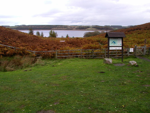 Derwent Reservoir and Pow Hill Country Park. Taken at MR: NZ01185168